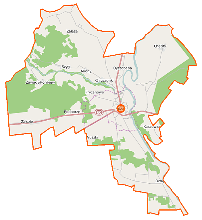 Map of Gmina Różan, Poland This map of Różan (gmina) was created from OpenStreetMap project data, collected by the community. This map may be incomplete, and may contain errors. Don't rely solely on it for navigation. Border coordinates52.951321.2809←↕→21.474252.8239